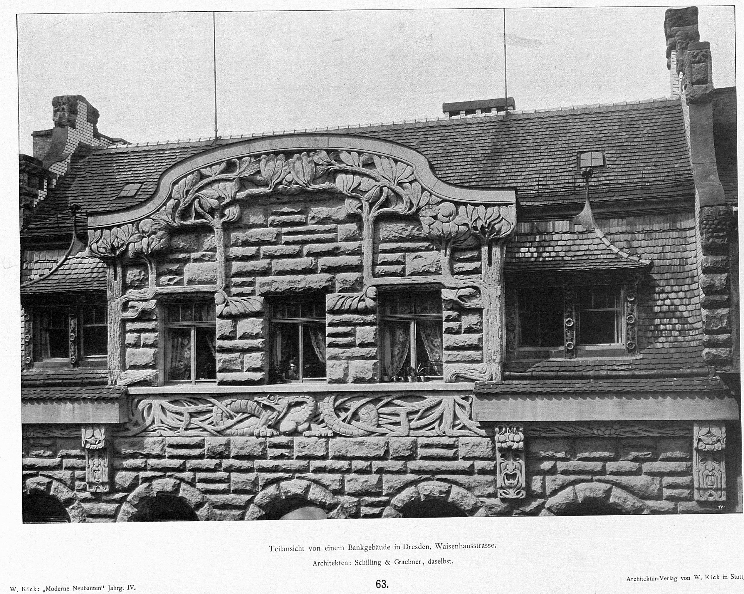 Sächsische Handelsbank Gebäude_in_Dresden,_Waisenhausstrasse_Architekten_Schilling_&_Graebner_Dresden.jpg